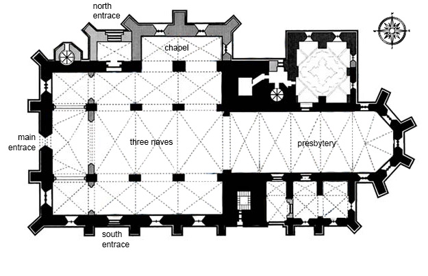 cathedral floor plan